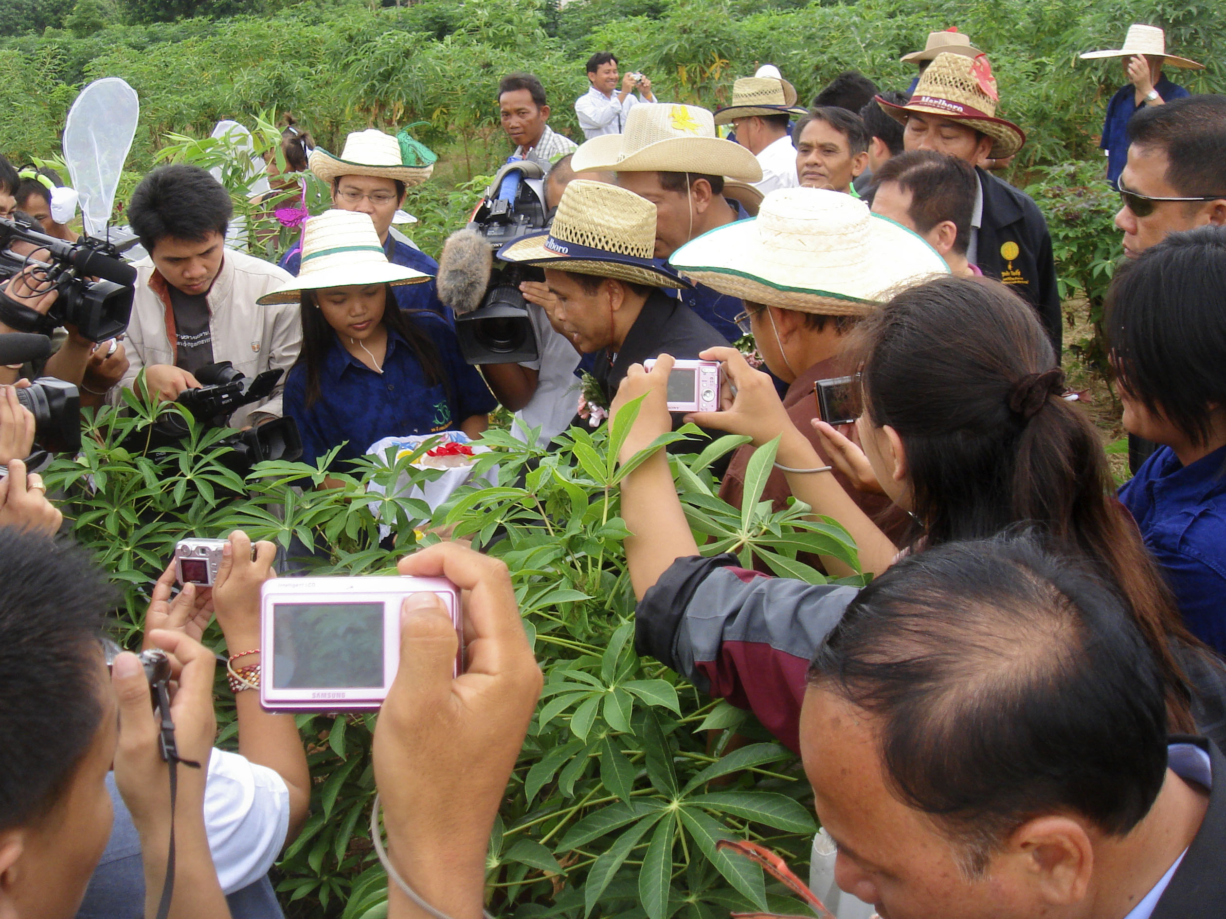 Pic by Rod Lefroy (CIAT). Please credit accordingly. Local media and scientists gather to witness the release of the tiny parasitic wasp Anagyrus Lopezi, at a ceremony organised and hosted by the Thai Department of Agriculture in the country's northeastern Khon Kaen province (17 July 2010). It is hoped that the wasp will help tackle the devastating cassava mealybug outbreaks in the country.